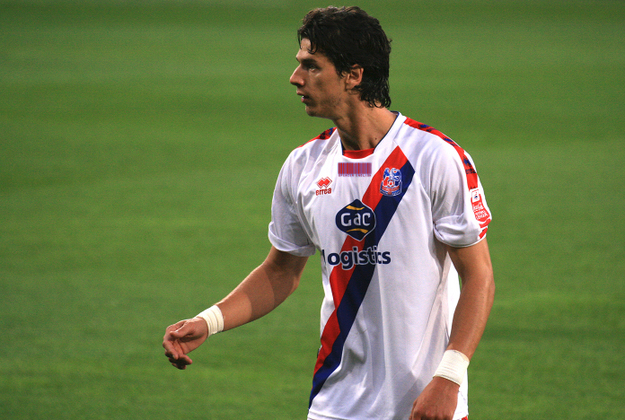 Jose Fonte against Fulham.